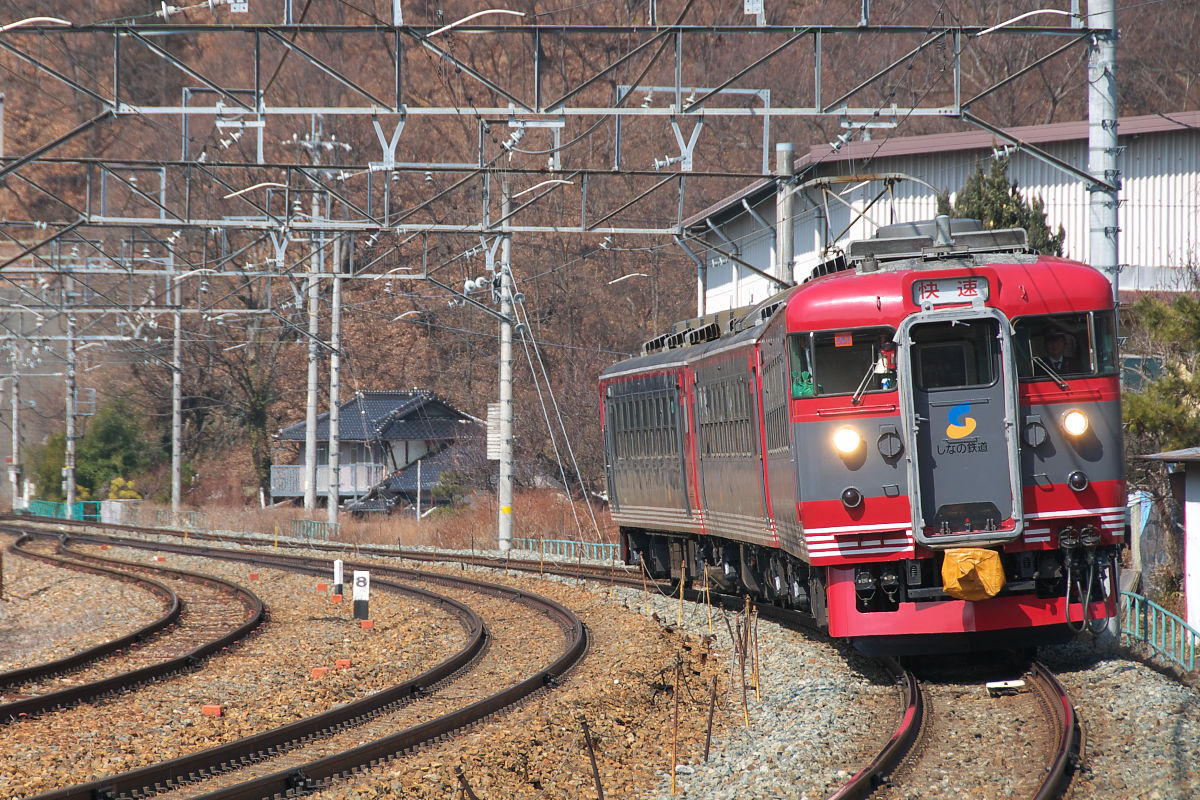 Shinano Railway series 169 EMU.